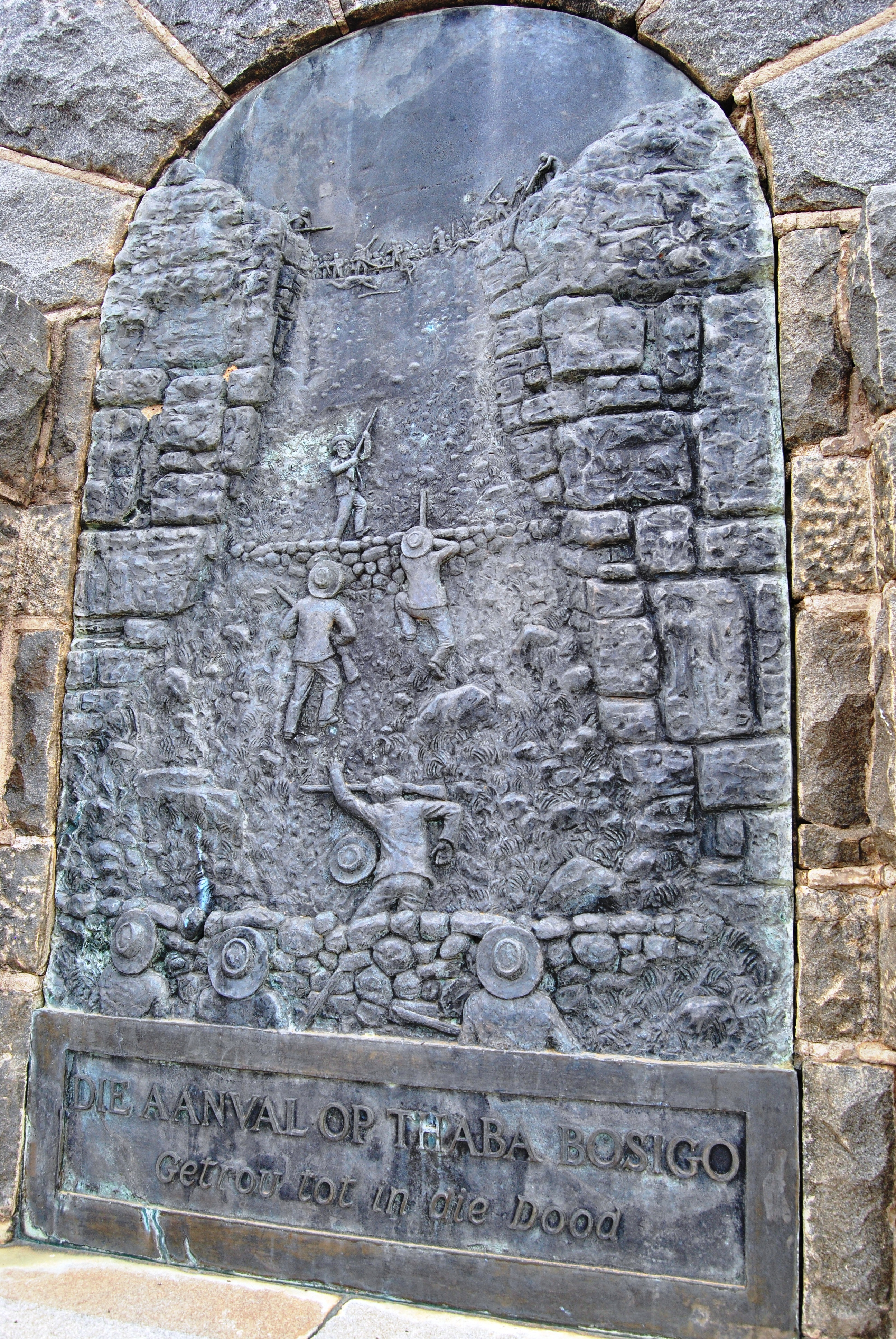 This is another aspect of Louw Wepener's Grave just outside Bethulie. This media shows a South African Protected Site with SAHRA file reference 9/2/301/0007.